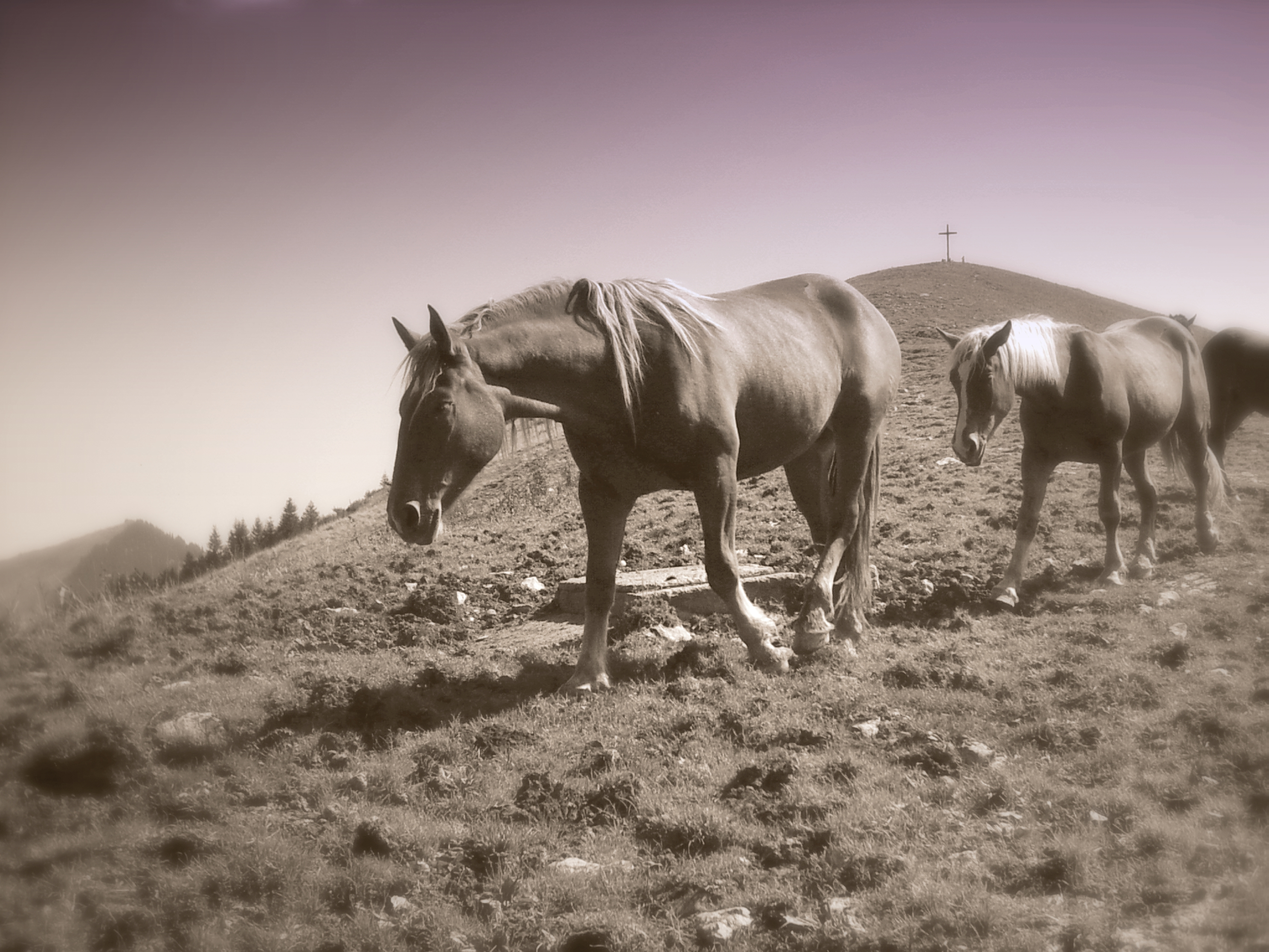 Horses at the Rosskopf (Horse-head) mountain near Spitzingsee, Obb., Germany. Photo by Dominik Hundhammer, München, Sept. 08, 2005.